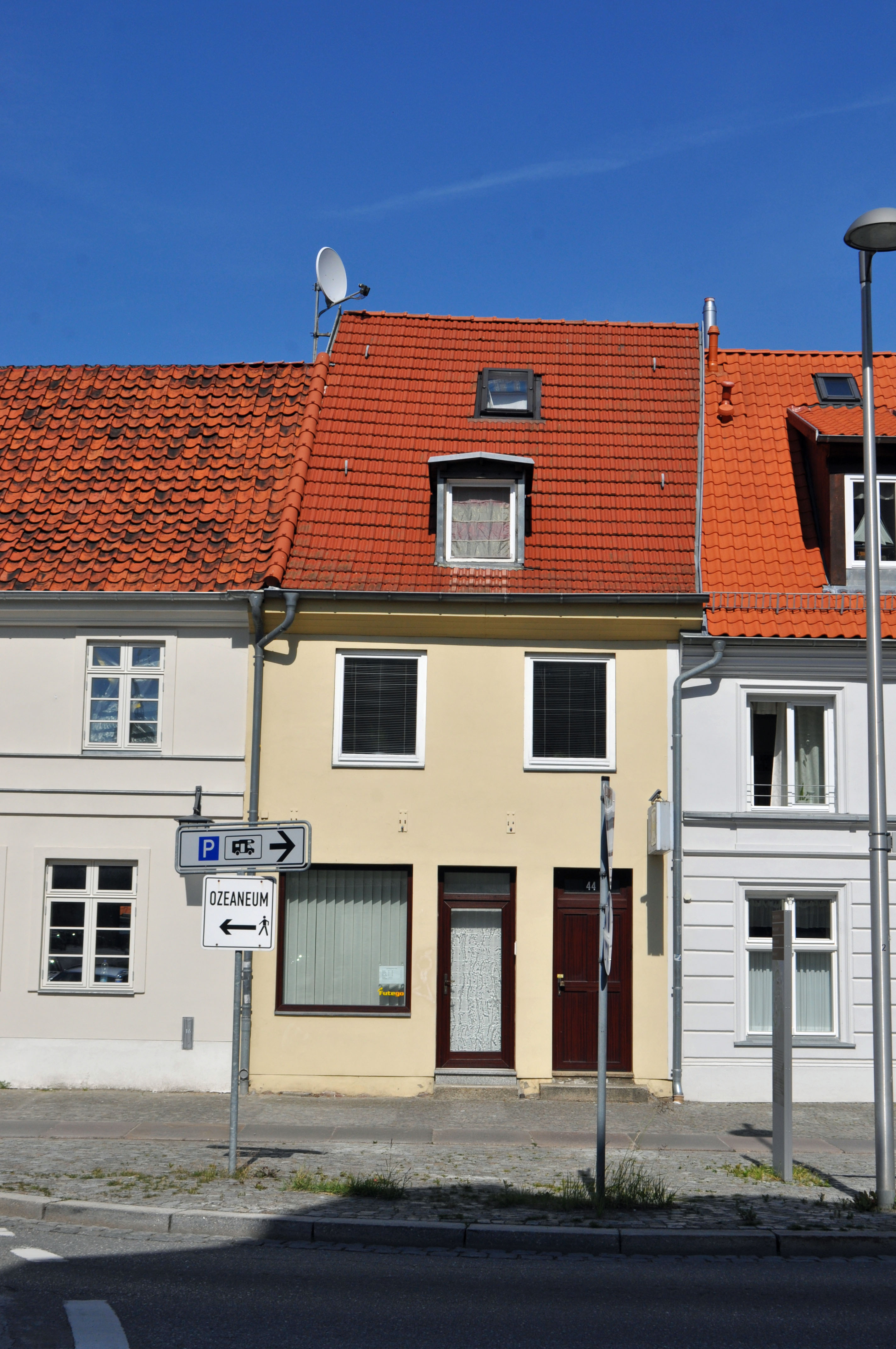 Stralsund, Wasserstraße 44 This is a photograph of an architectural monument.